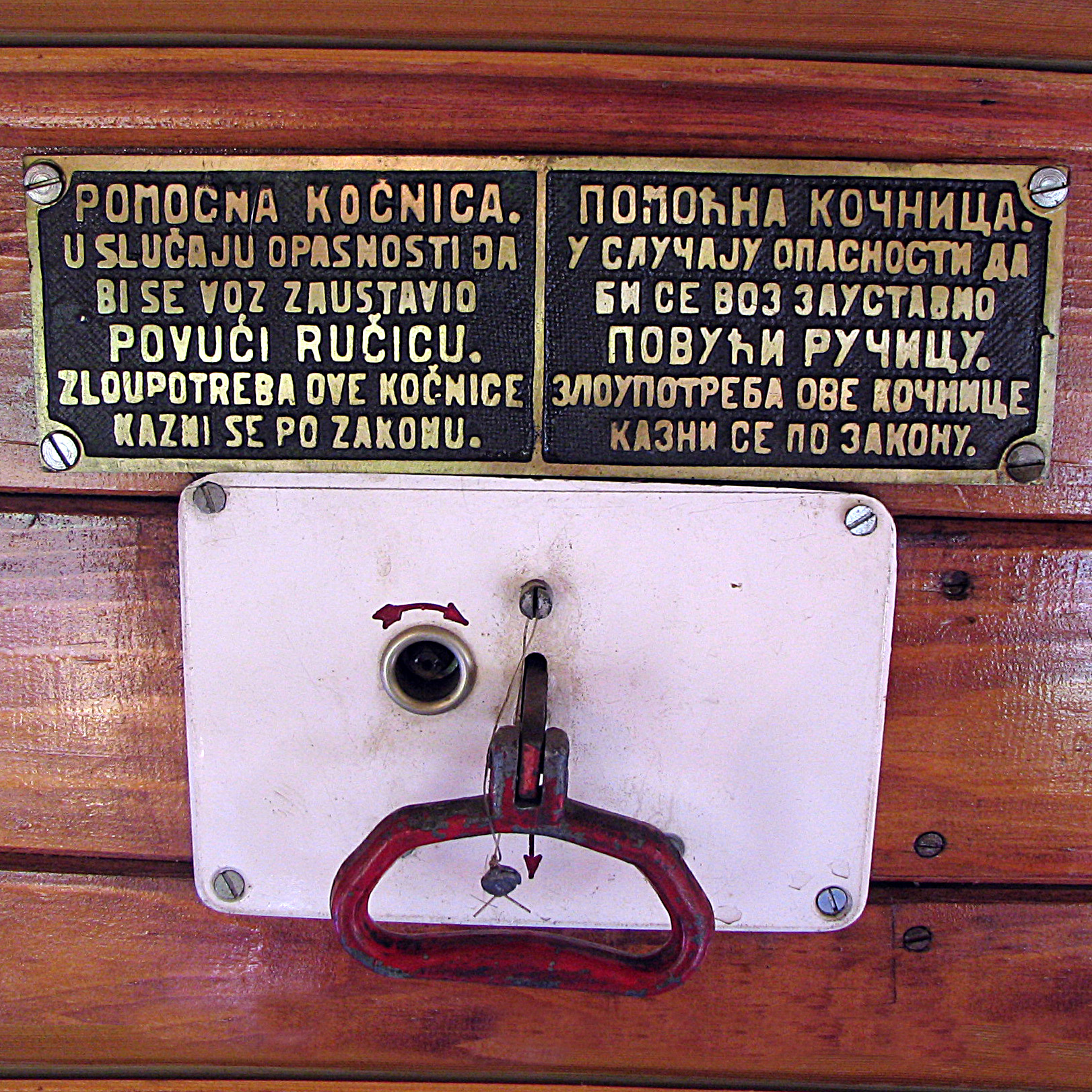 Railway brake, Šargan Eight, Serbia